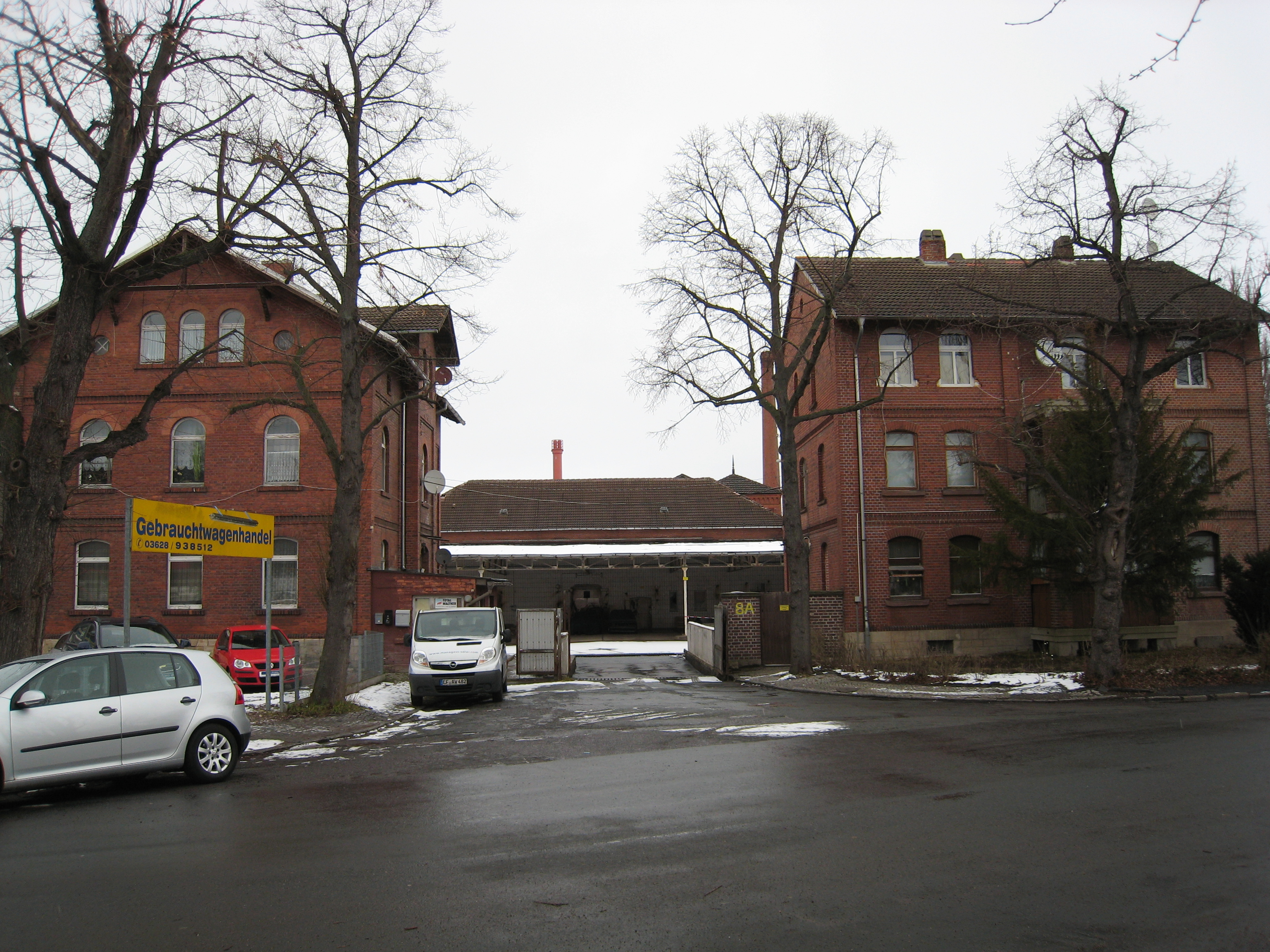 Former slaughterhouse in Arnstadt, Dammweg